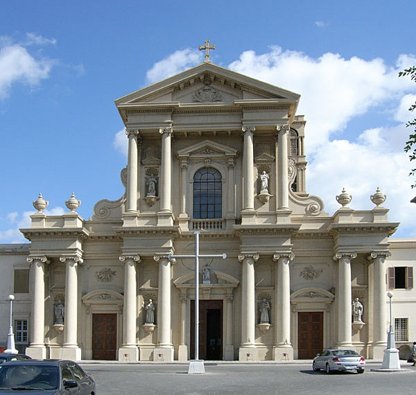 Cathedral of St. Catherine, western entrance, Alexandria, Egypt